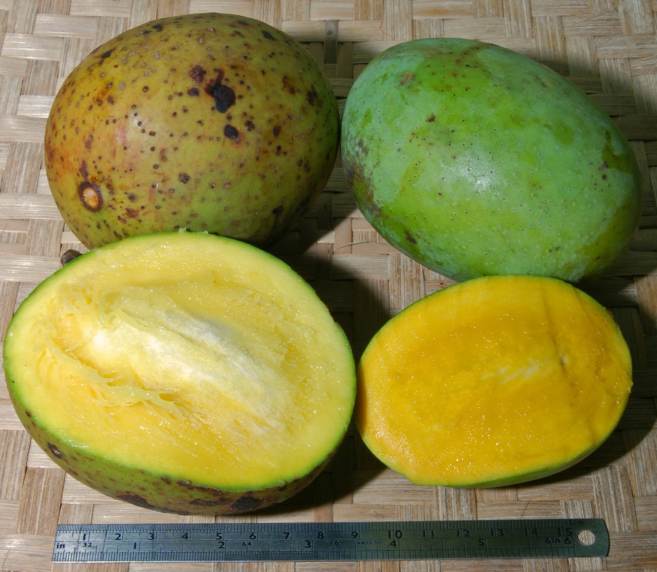 Mangifera foetida (left) in comparison with M. odorata (right). From Bogor, West Java, Indonesia